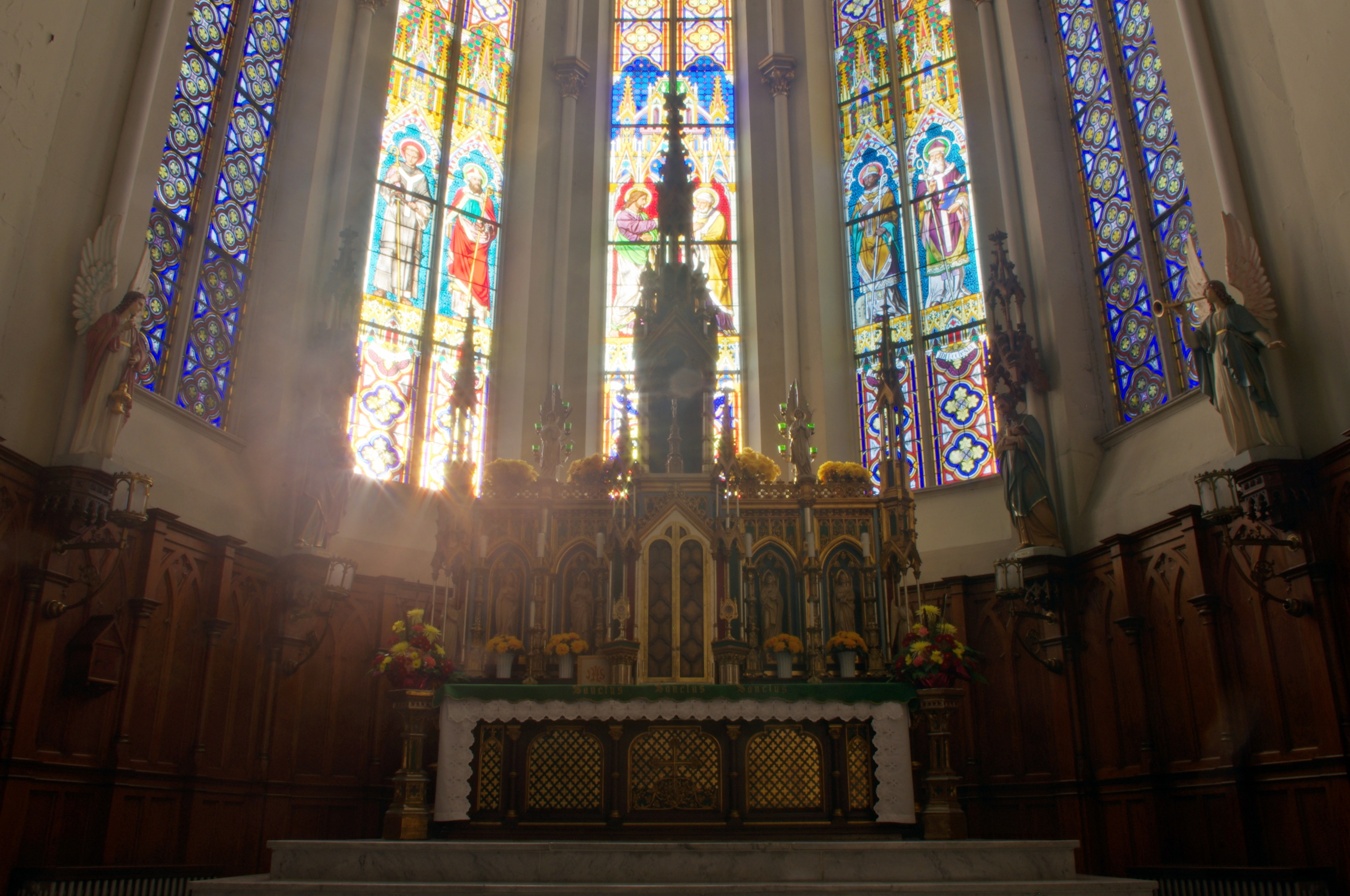 Saint Joseph Catholic Church (Detroit, MI) - altar and tabernacle